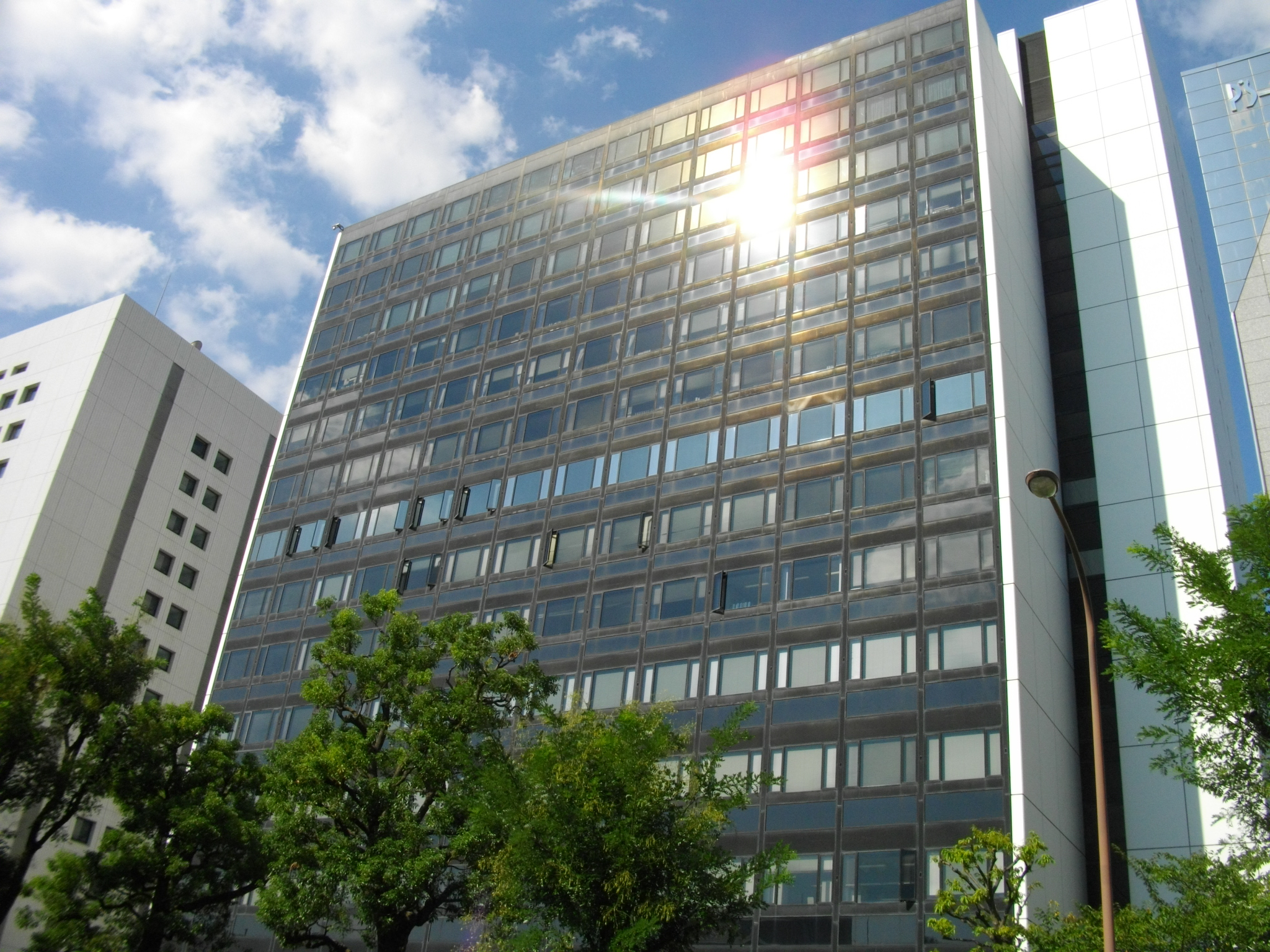 Kudan Common Government Office Building